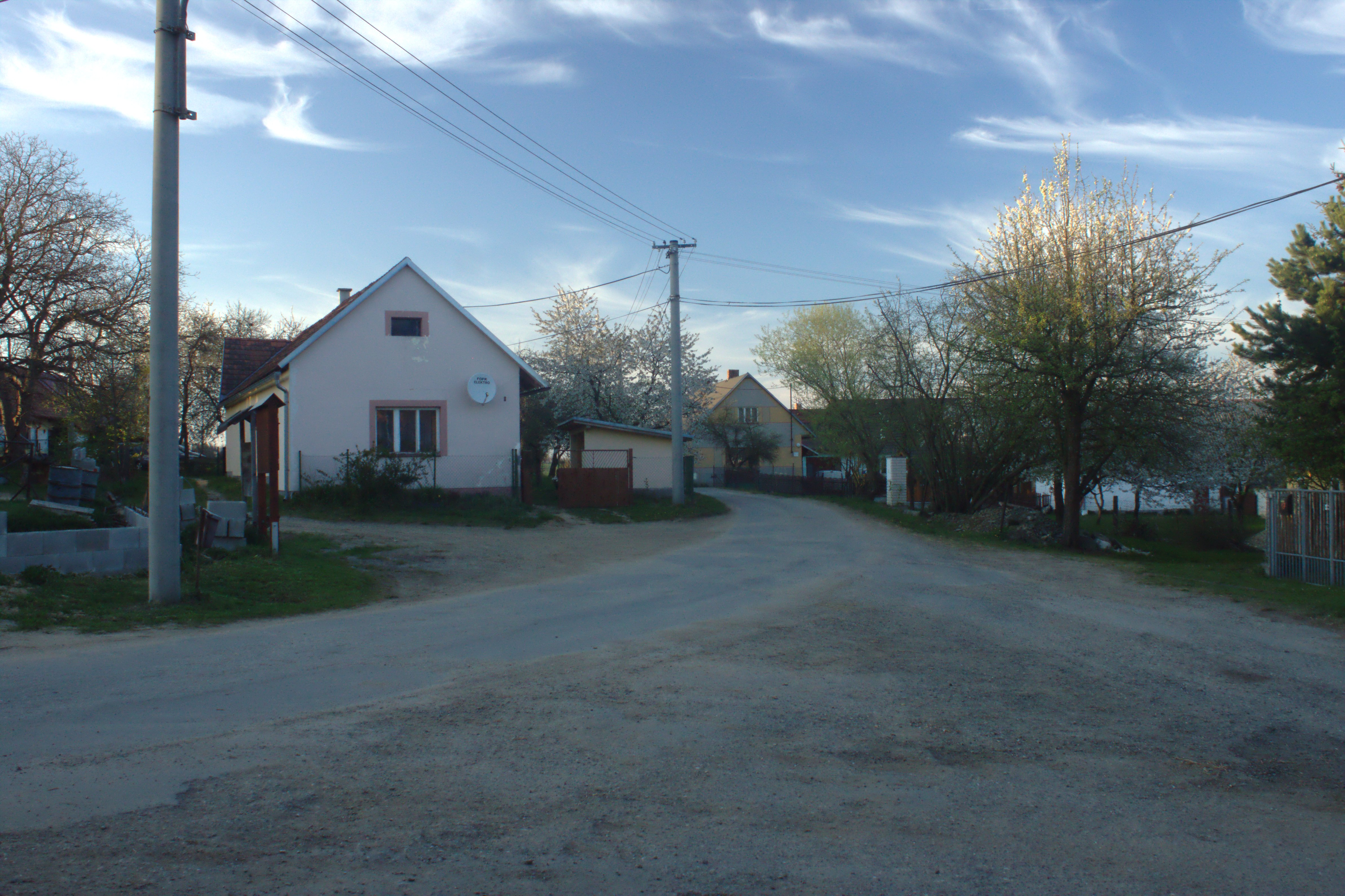 This photograph was created as a part of Wikiexpedition Mladá Vožice, a project supported by Wikimedia Foundation grant.